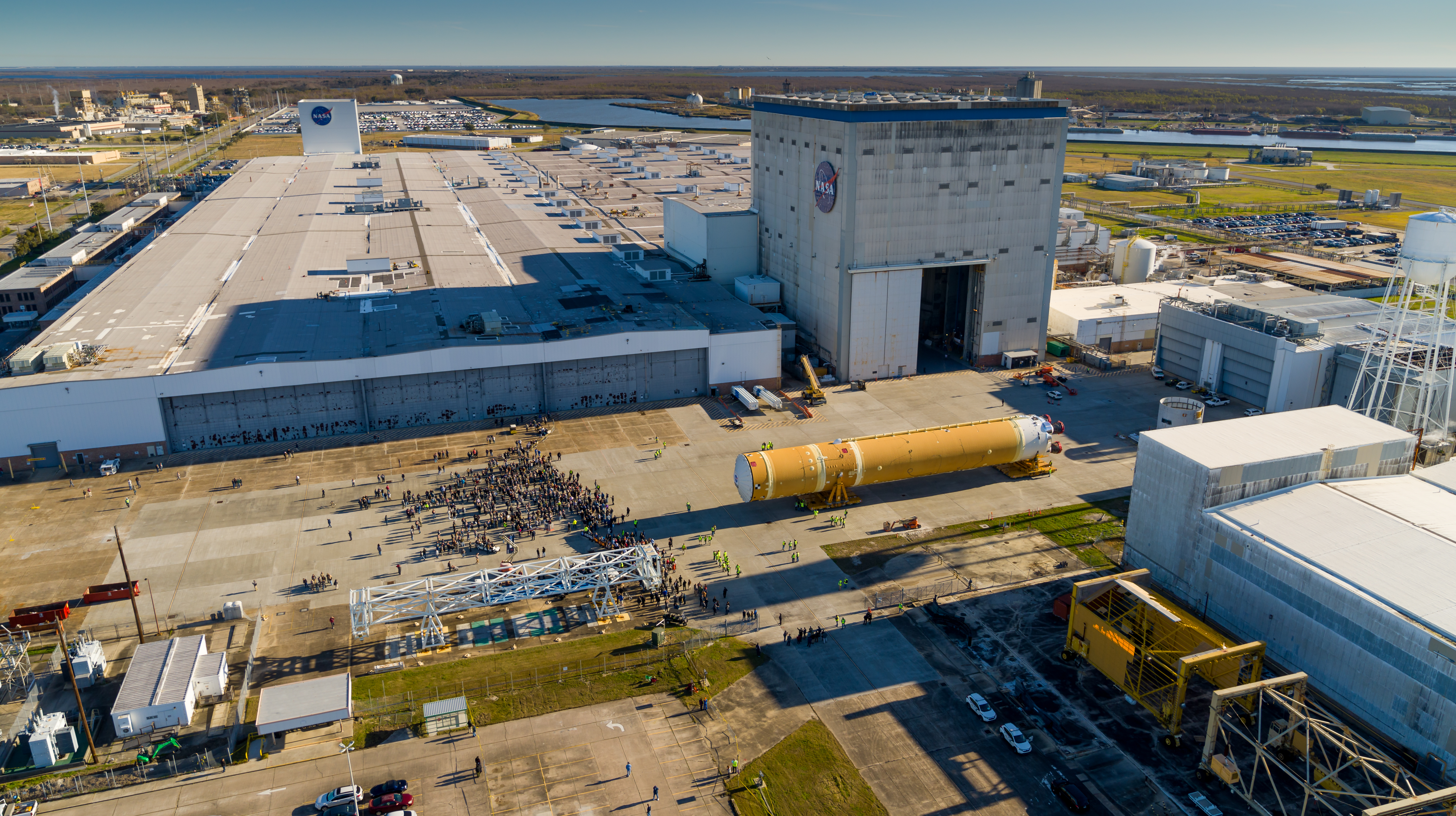 NASA drone footage showing aerial photorgraphy of the Michoud Assembly Facility from an estimated altitude of 85 meters. The entire main manufacturing building, the twin vertical assembly buildings, factory plaza and the Chris Hadfield factory workshop (on the lower right) are visibile.